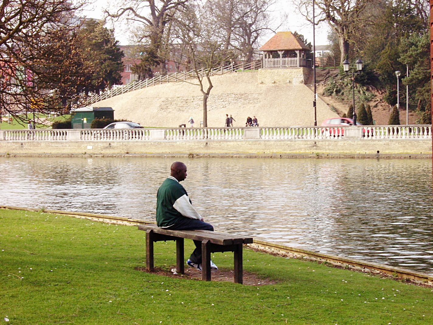 A solitary figure sits and contemplates the River Great Ouse in front of Bedford Castle Mound.